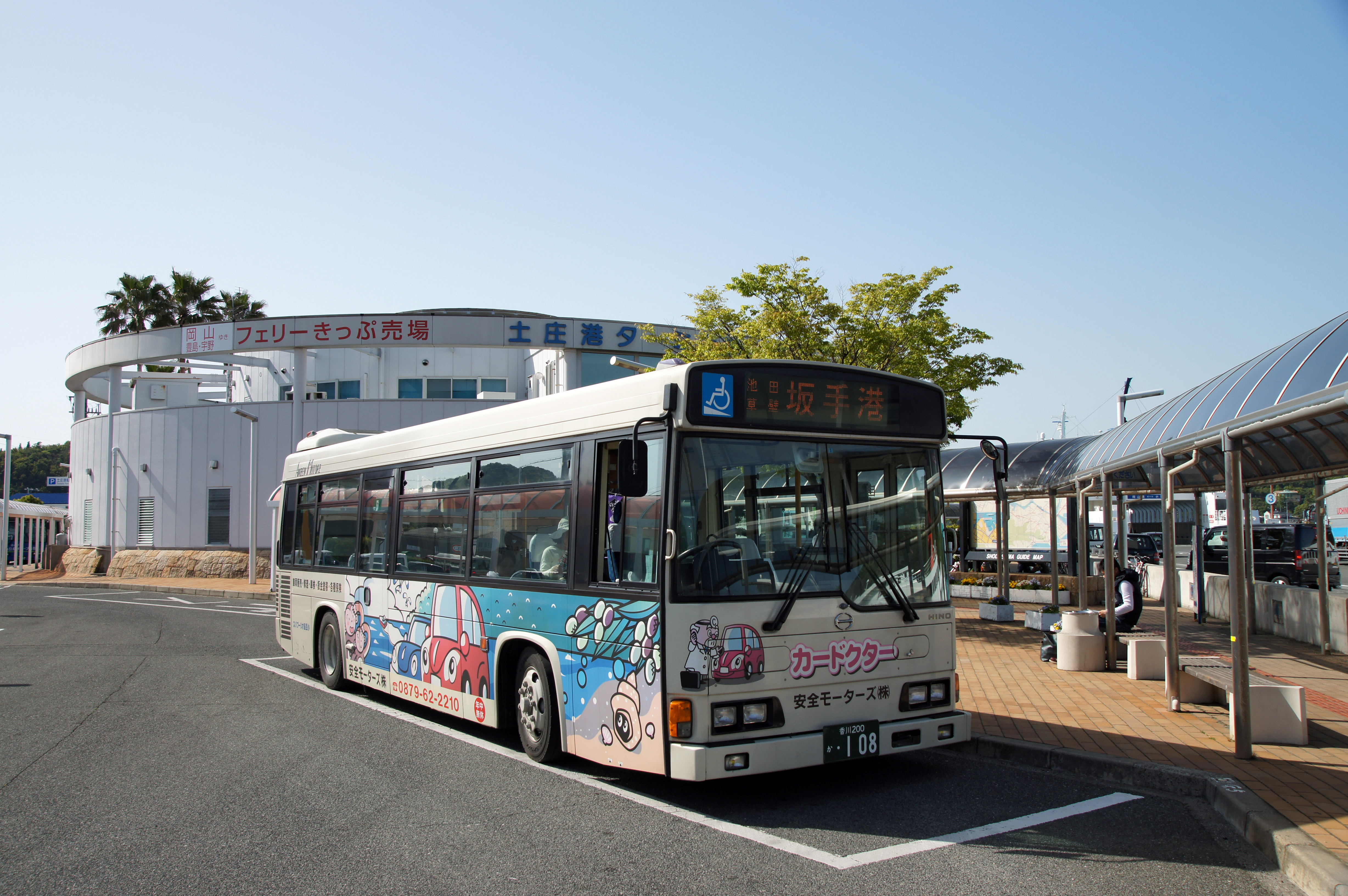 Port of Tonosho terminal building and bus stop in Shodo Island, Tonosho Town, Kagawa Prefecture, Japan